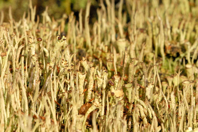 Cladonia from Commanster, Belgium. If you think this is a different taxon, please contact James Lindsey.